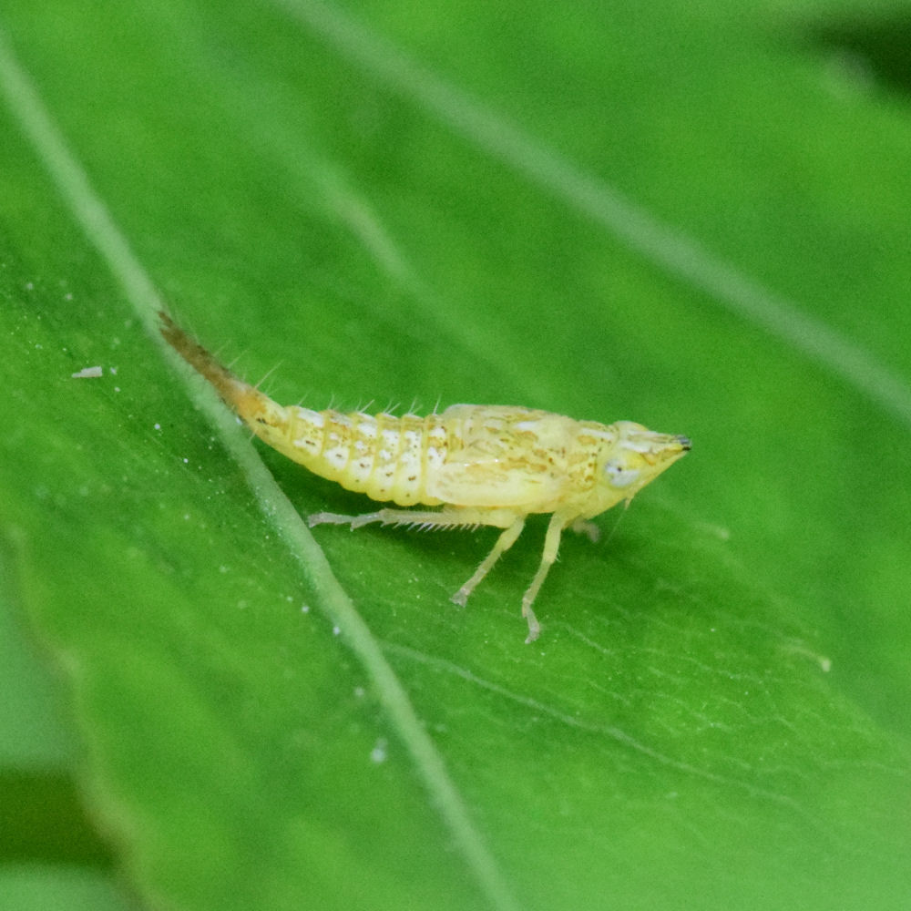 Japanus hyalinus nymph photographed in Cambridge, August 2015.